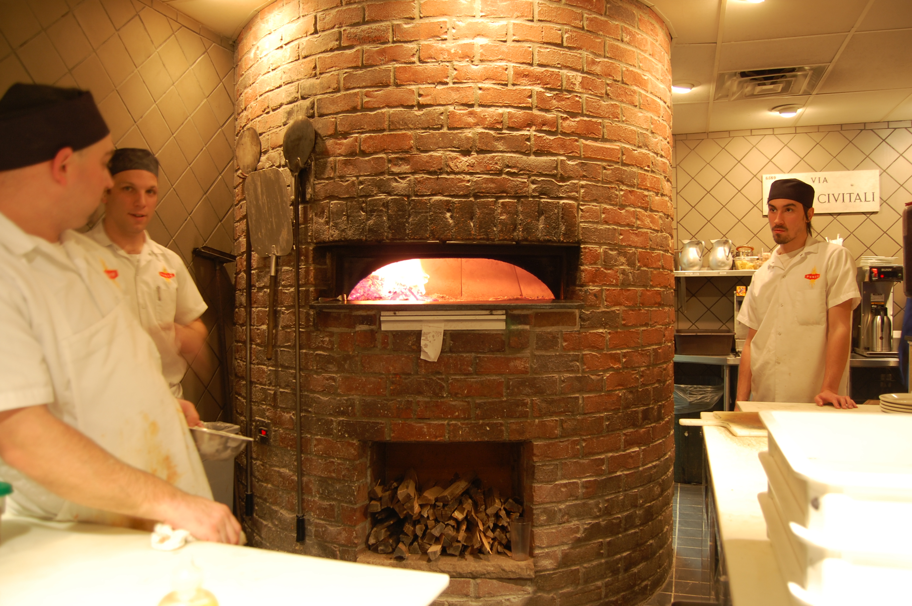 Not a great photo by any means, but the first in Punch's photography contest.